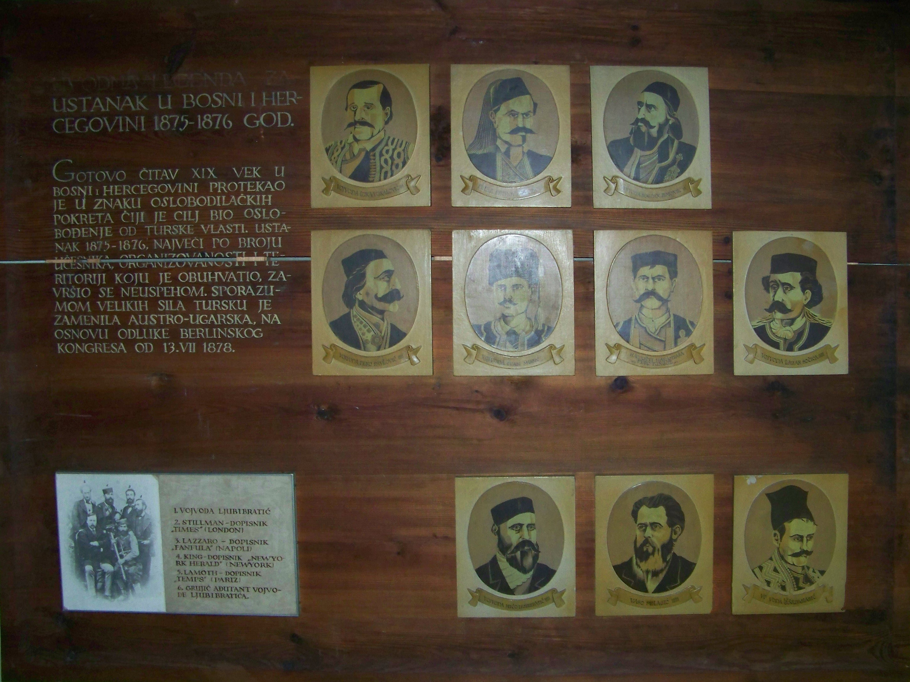 Some leaders of Bosnia-Herzegovina uprising against the Turks, 1875-1878